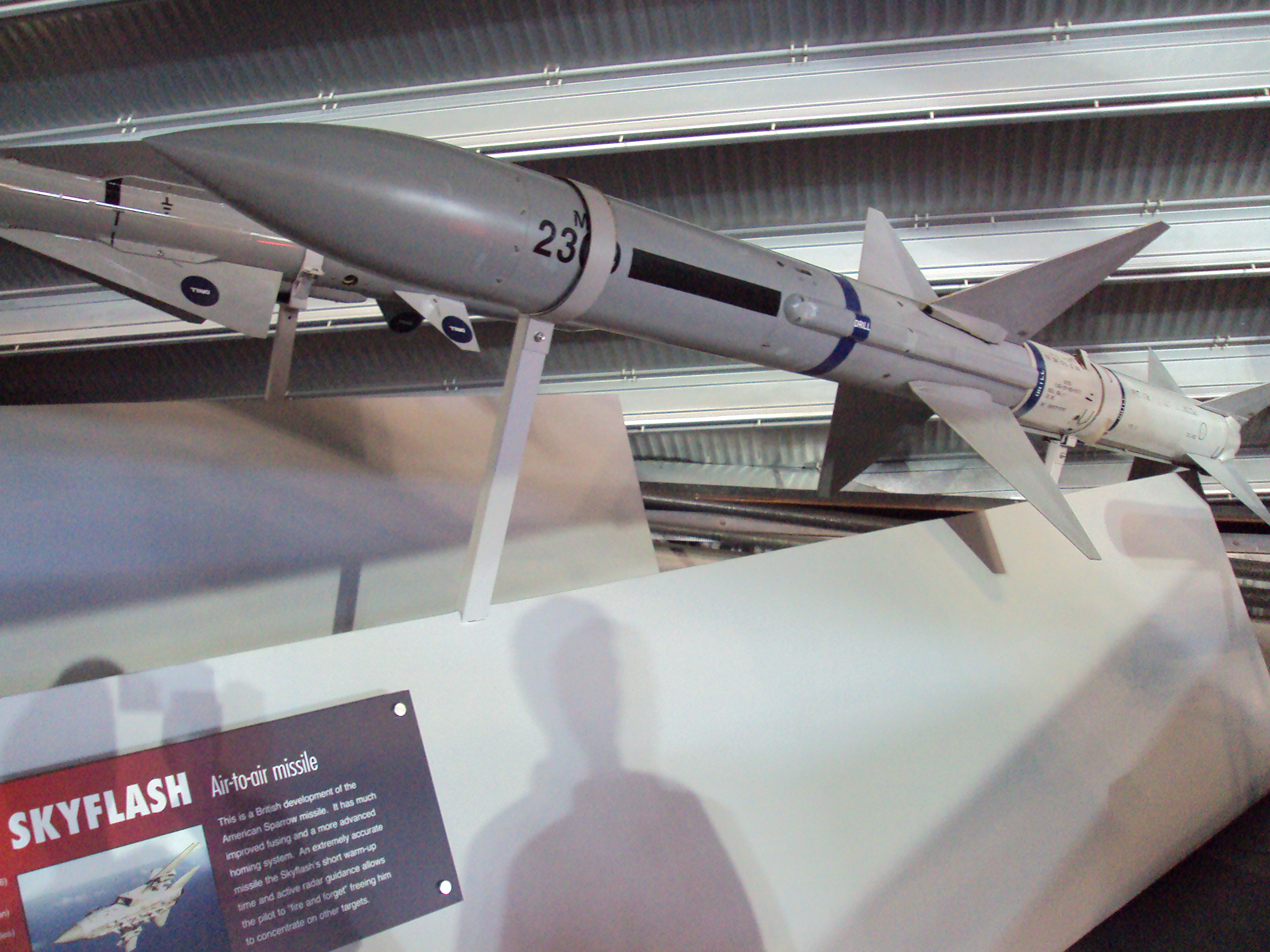 British Aerospace Skyflash air-to-air missile. Photo taken at the RAF Museum Cosford, Shropshire, England.